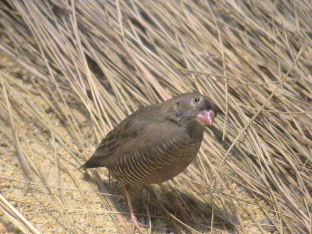 African Quailfinch (Ortygospiza atricollis). Frankfurt Zoo.